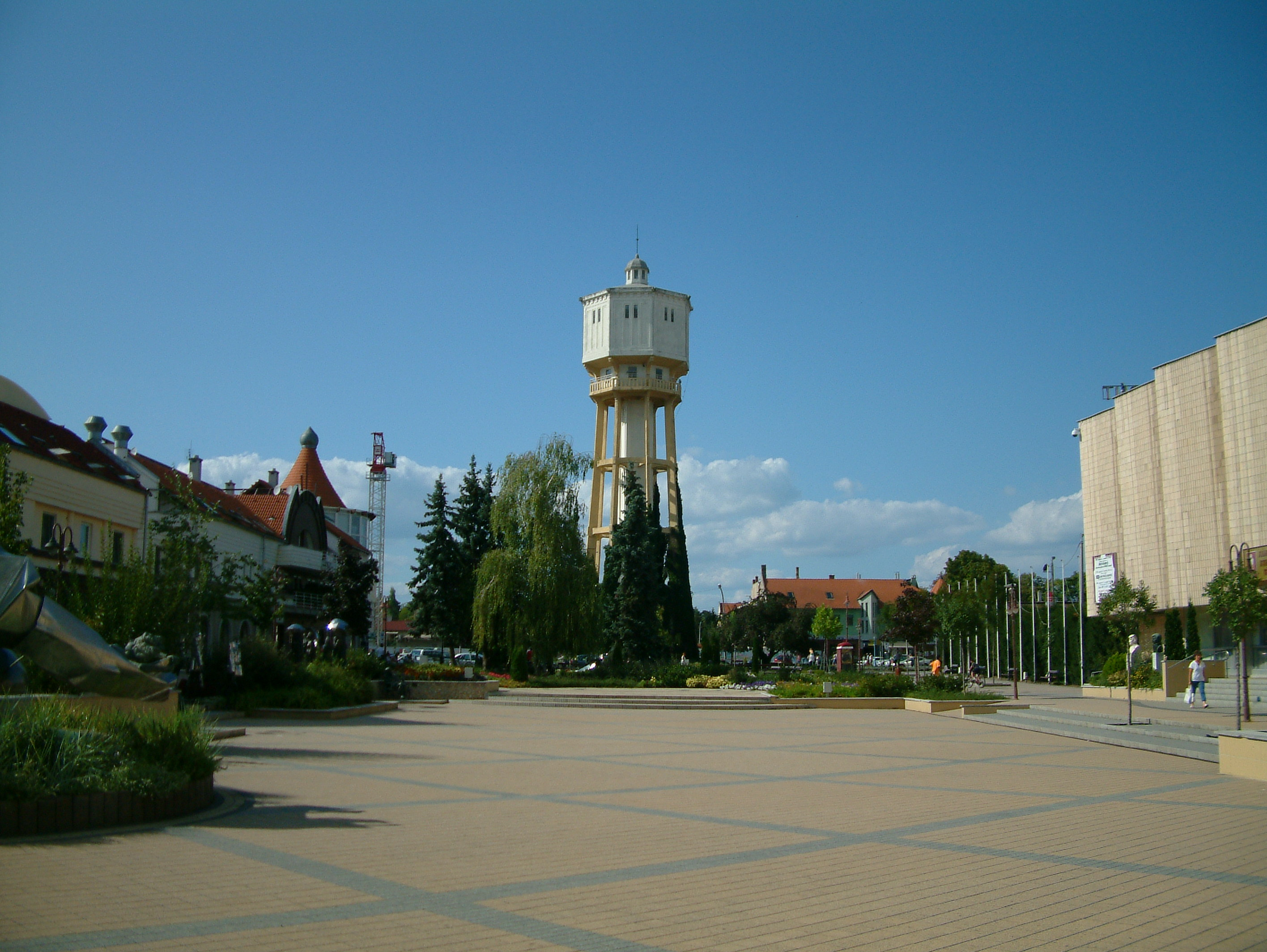 Fő tér (Main Square), Siófok